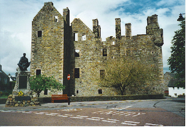 McLellan's Castle, Kirkcudbright.